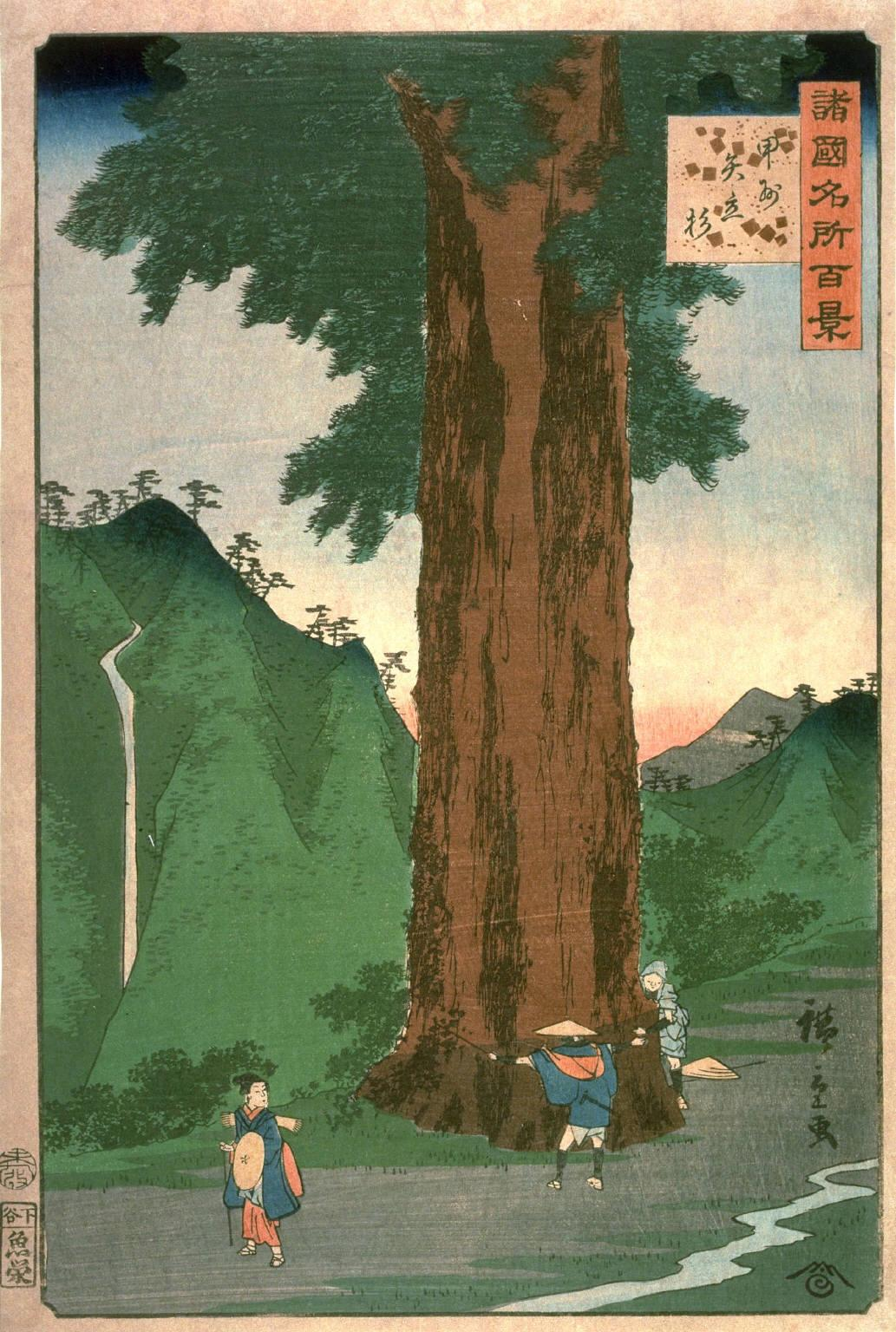 Kōshū Yatatesugi of 100 Views of the Provinces.